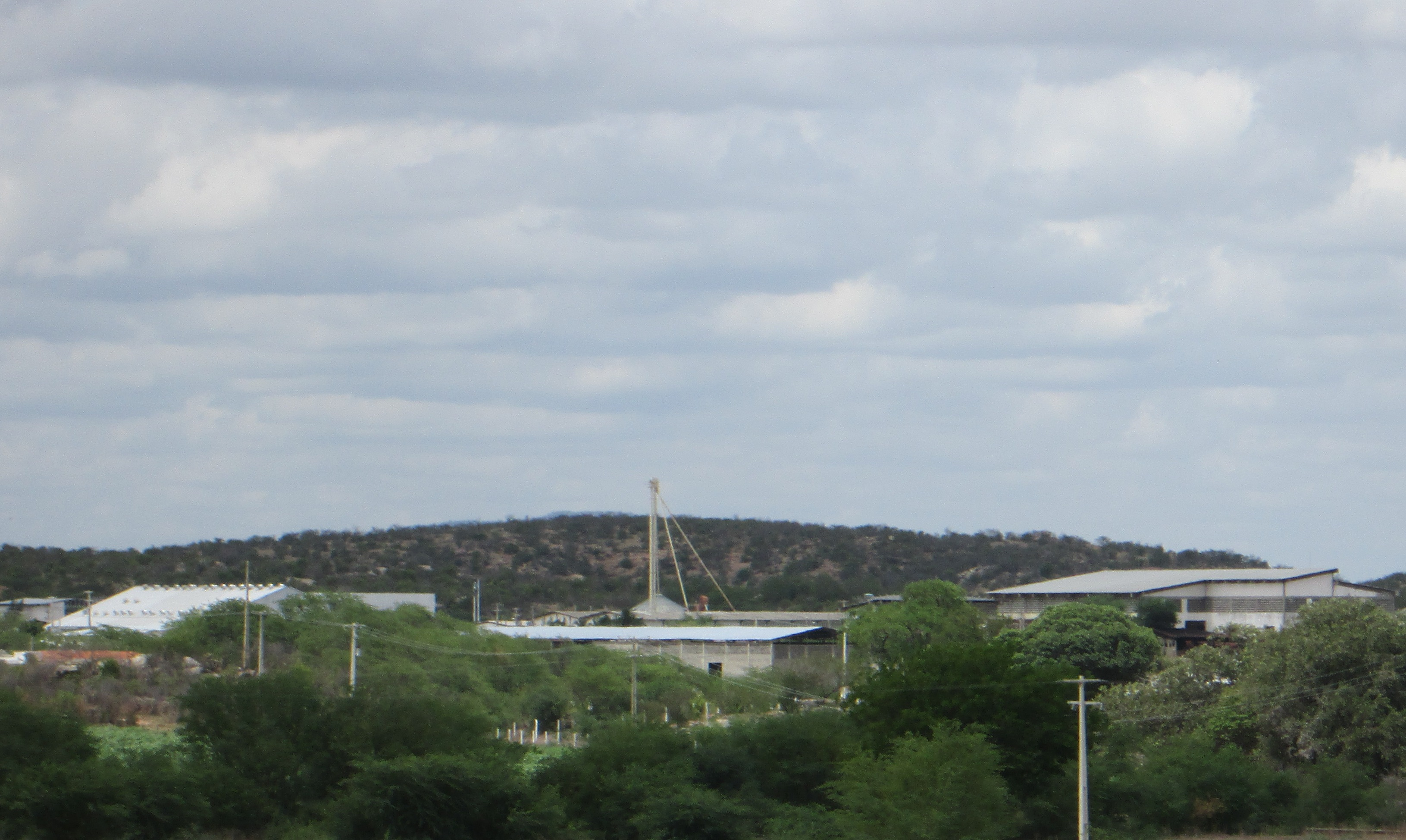 Industrias em Caicó (RN) - Brasil.